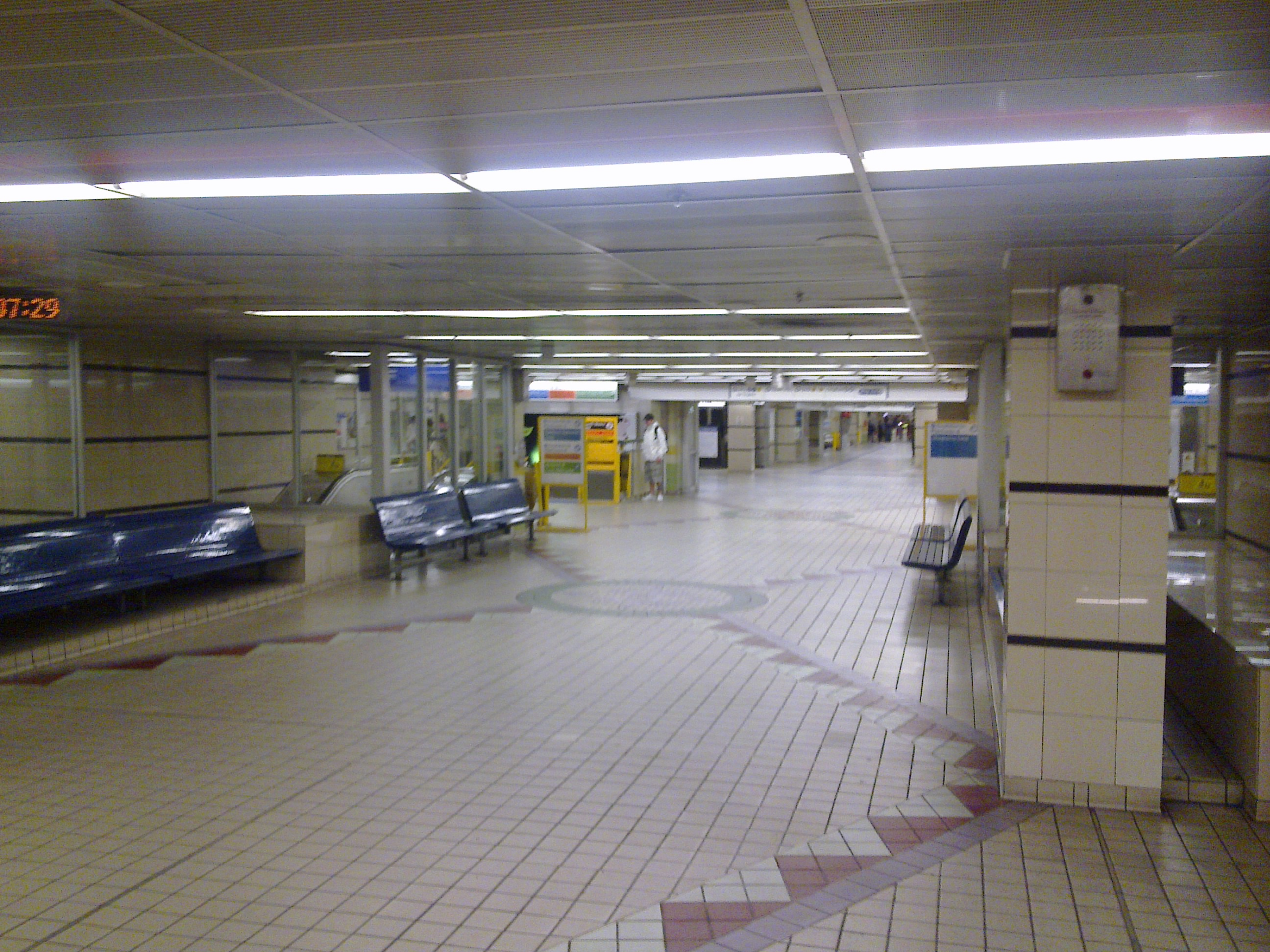 Town Hall Station Concourse